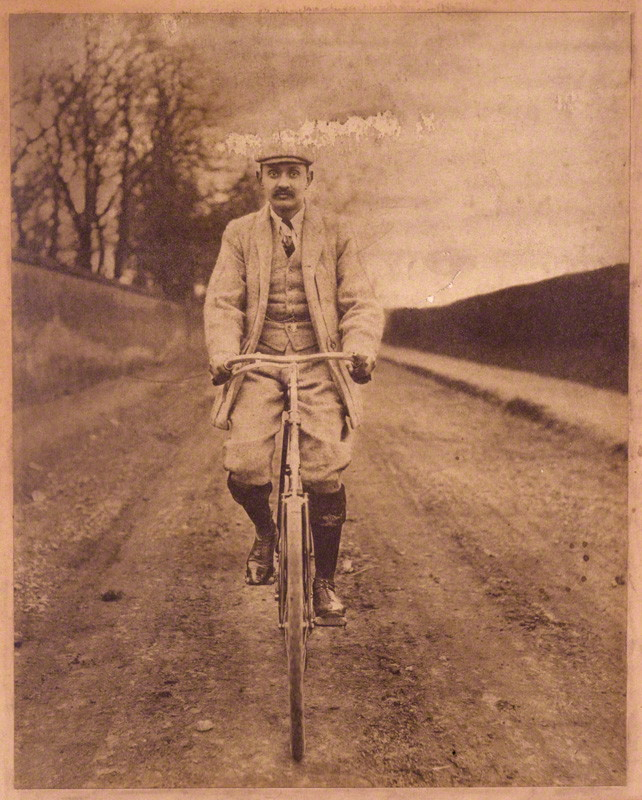 Photograph of Ranjitsinhji ('Ranji') Vibhaji, Maharaja Jam Sahib of Navanagar. sepia-toned gravure print, late 1890s 11 in. x 8 3/4 in. (279 mm x 224 mm)